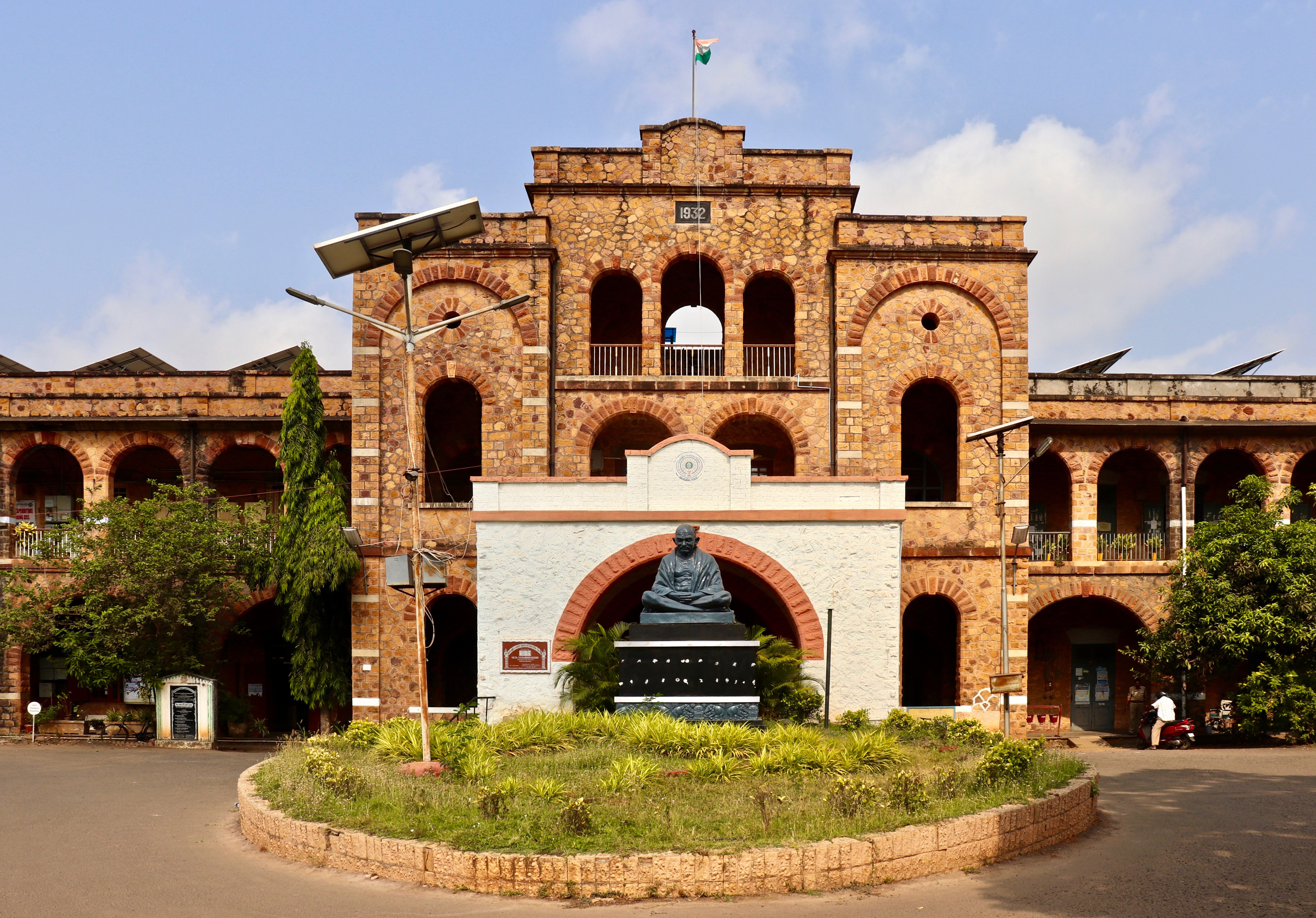 District Collectorate of West Godavari, Eluru constructed in 1932